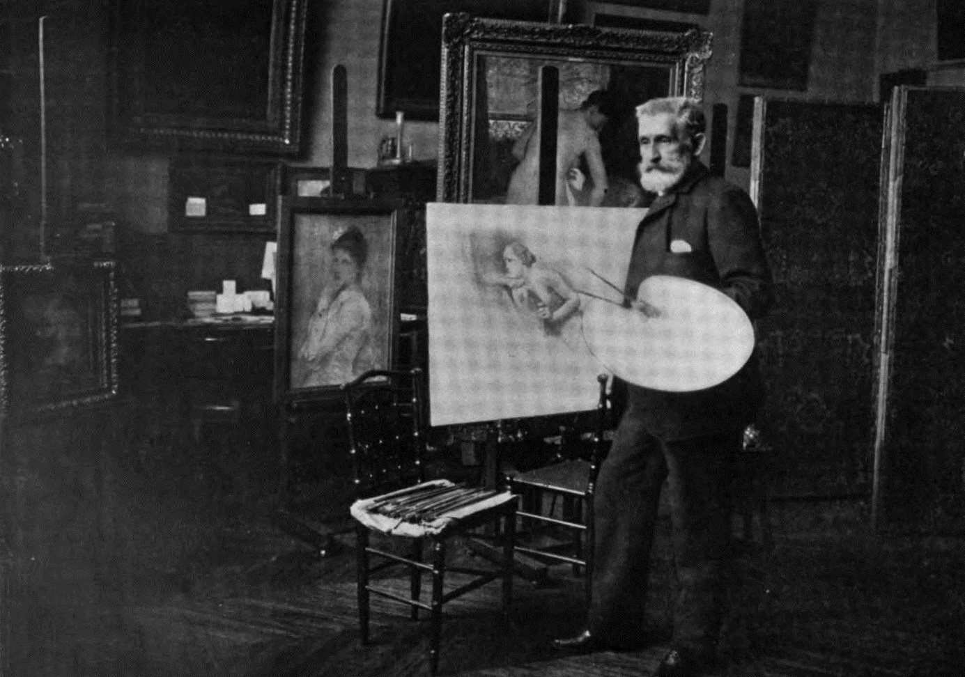 Tony Robert-Fleury